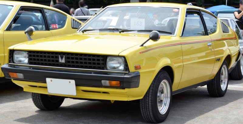 Mitsubishi Lancer Celeste 1400SR